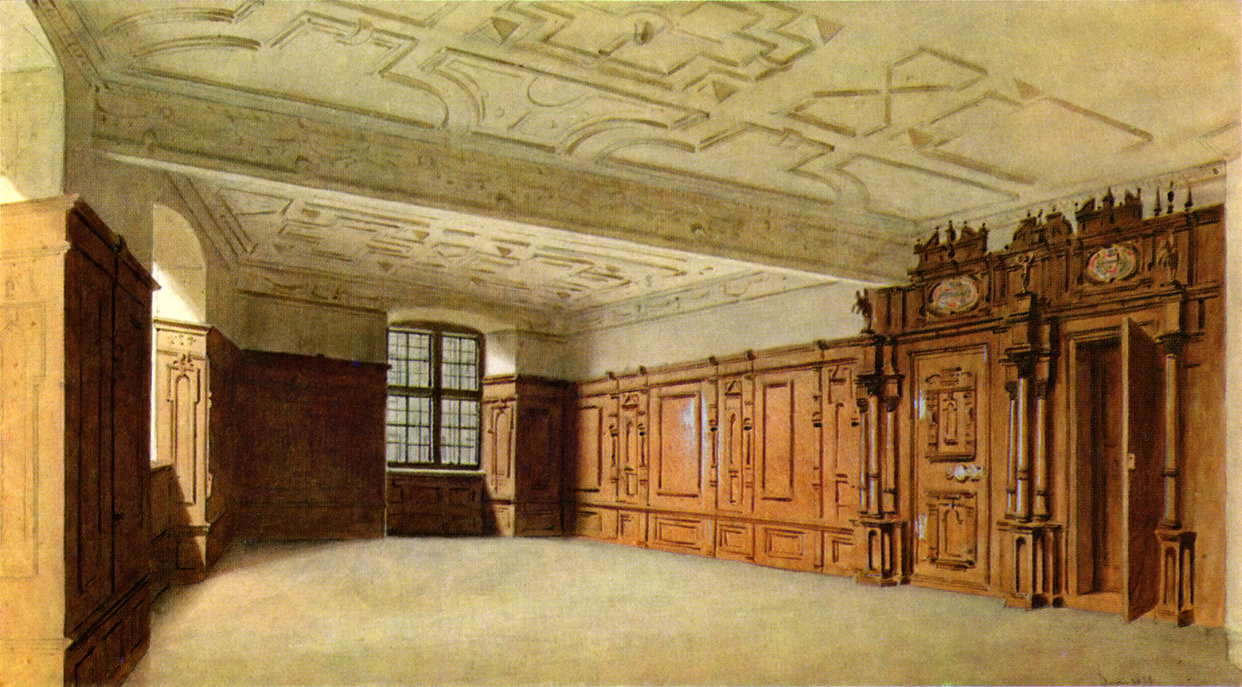 Frankfurt on the Main: House Fuersteneck, hall of the first floor with stuccoed ceiling and wall cladding of the Renaissance